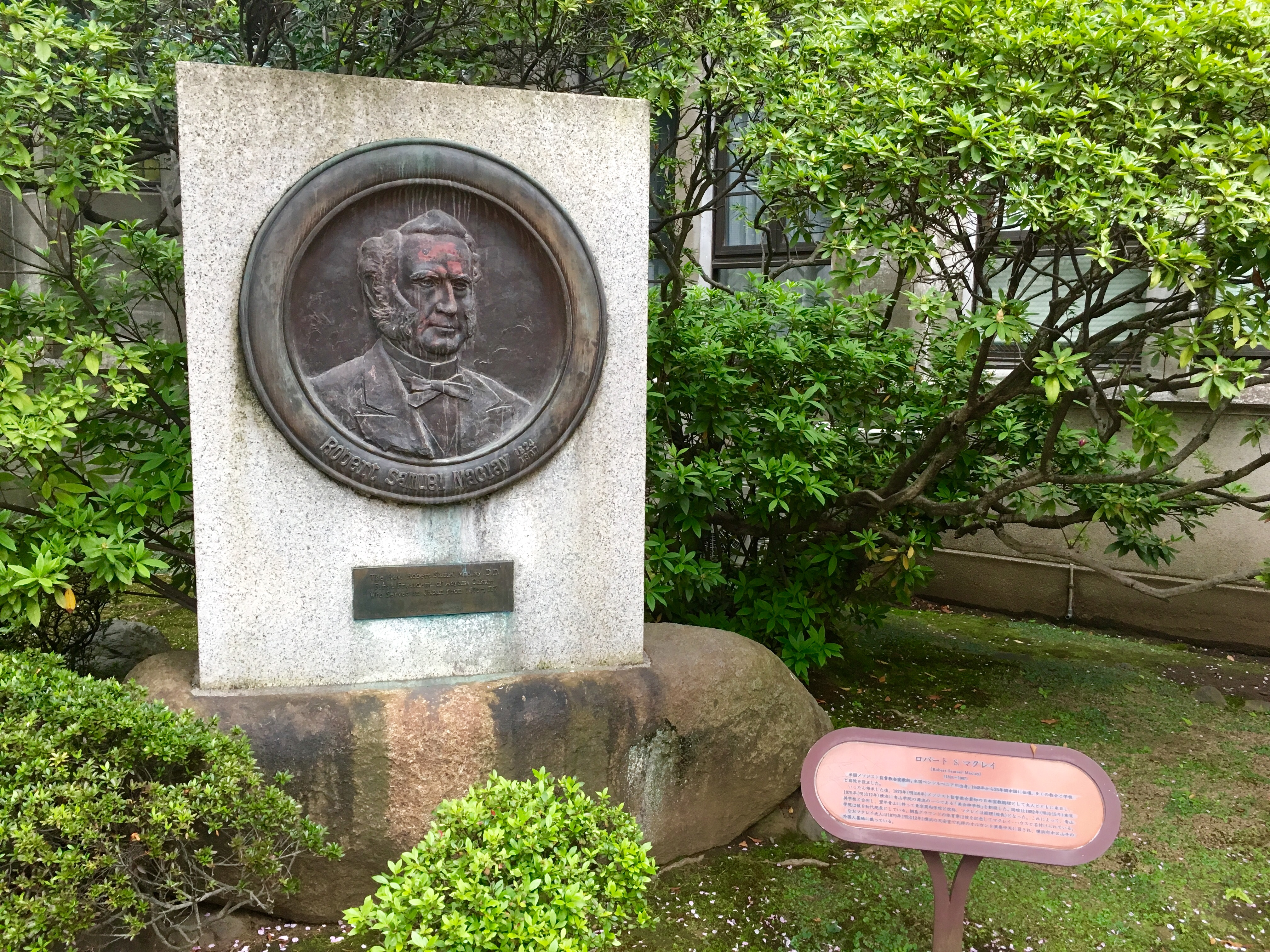 This is the monument of Robert Samuel Maclay, located in the campus of Aoyama Gakuin .